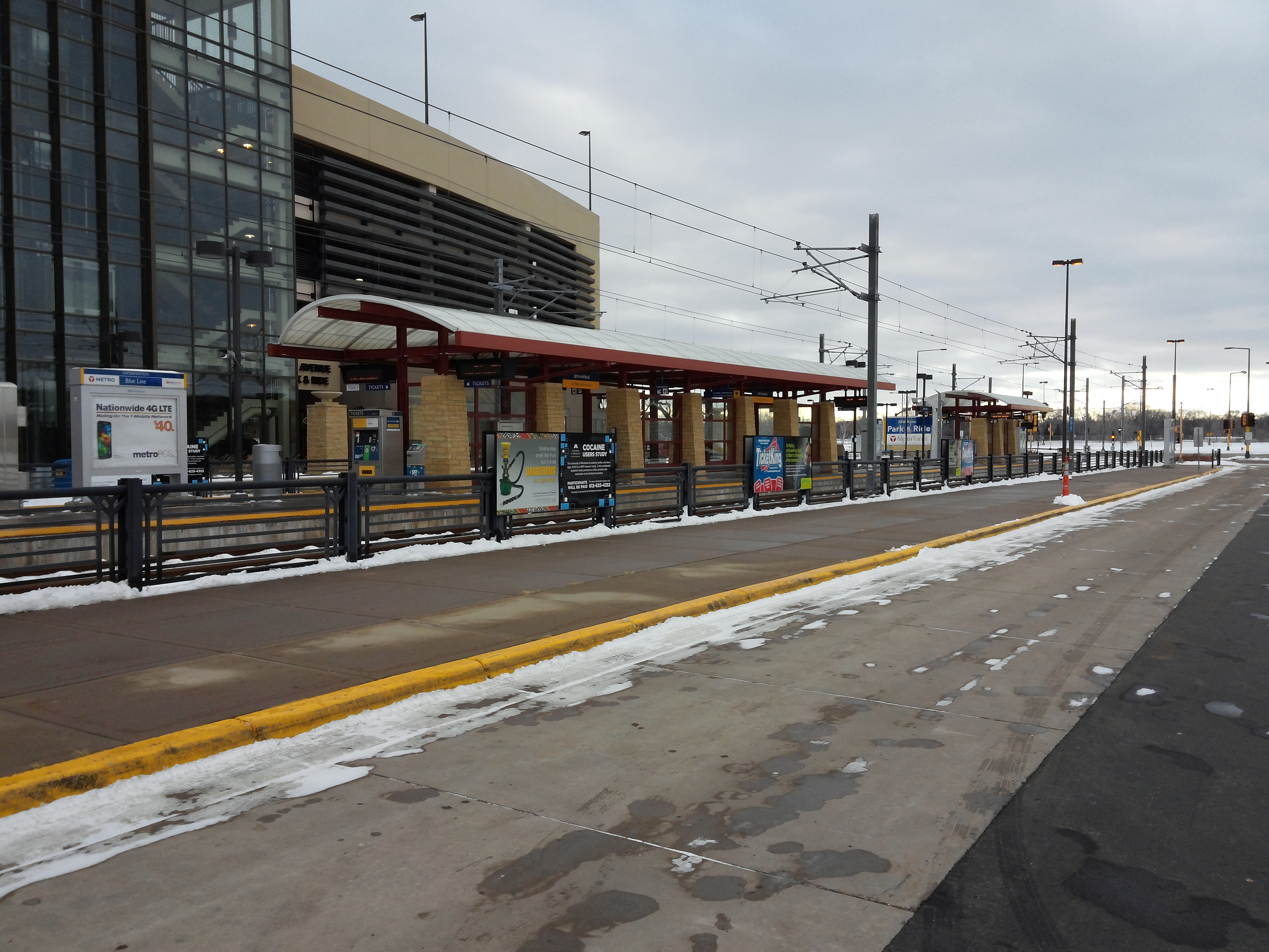 28th Avenue station on the METRO Blue Line, facing south.